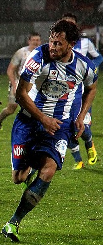 Mattias Sereinig, footballer of SC Wiener Neustadt during the match between SV Grödig, 23 November 2013